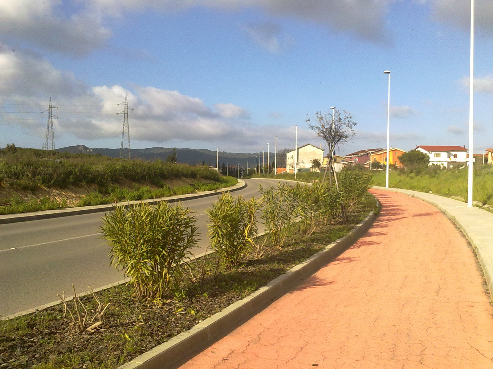 Via Aspromonte (known also as Asse Passante Ovest) in Carbonia, Sardinia, Italy. The street and the bike path are partially built on the former rail path of the railway San Giovanni Suergiu-Iglesias, closed in 1974. The white house on the right in those years was the Serbariu train station.